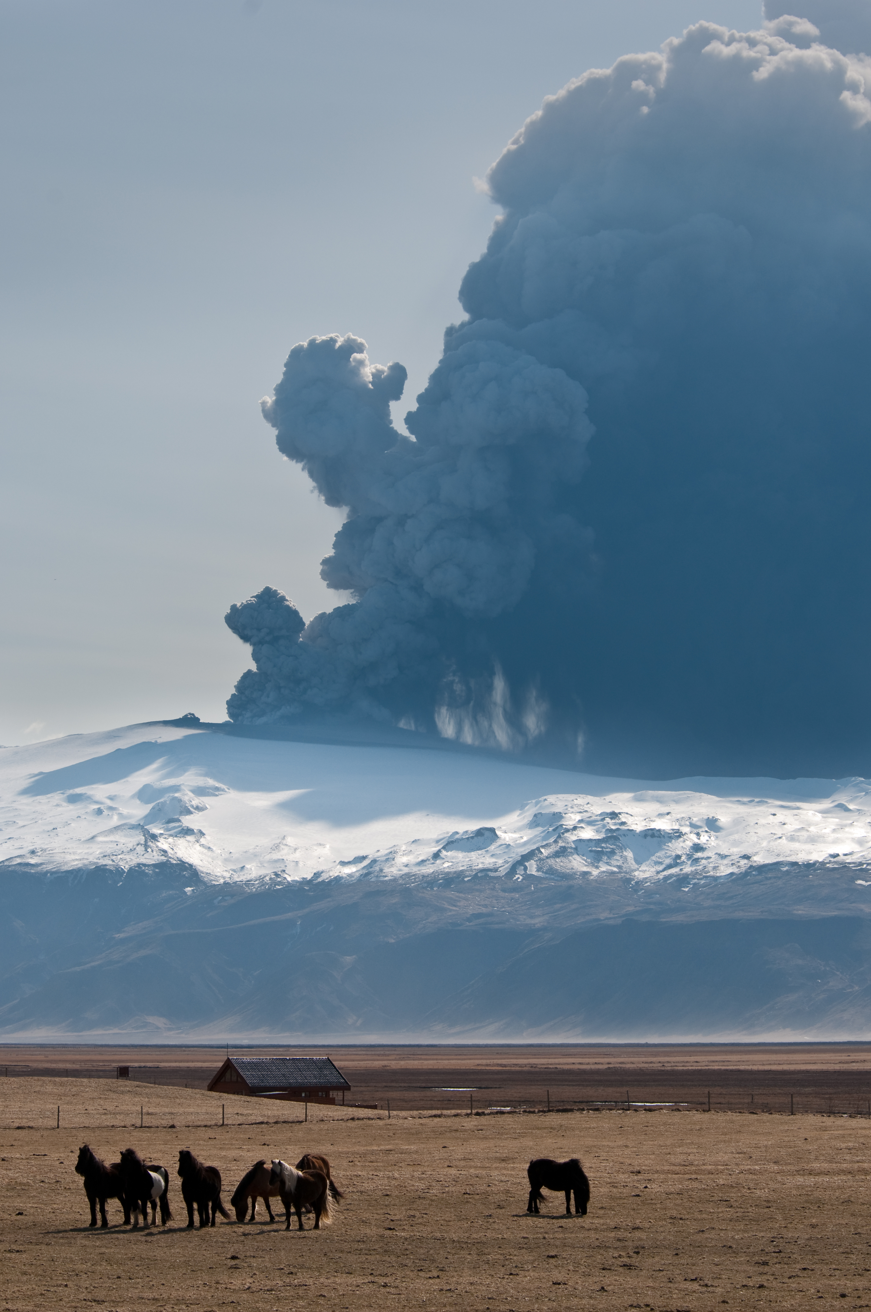 The ash cloud forming during the early stage of the eruption in Eyjafjallajökull. Seen from Fljótshlíð, circa 27 km wnw of the eruption.